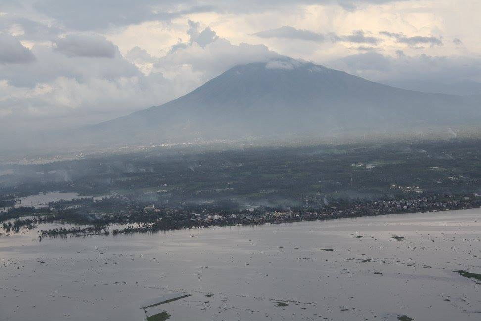 nina storm